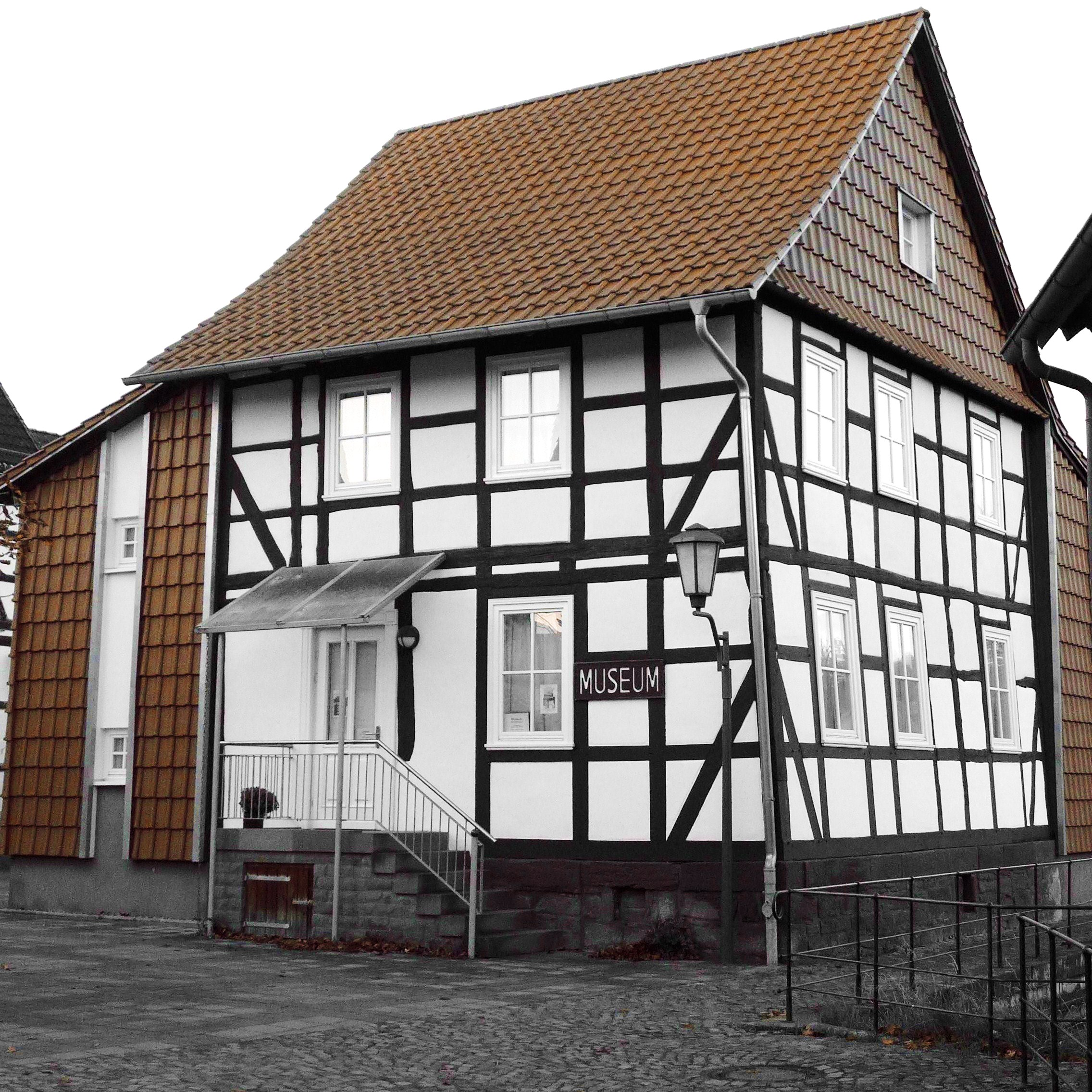 Museum in Dassel, Germany